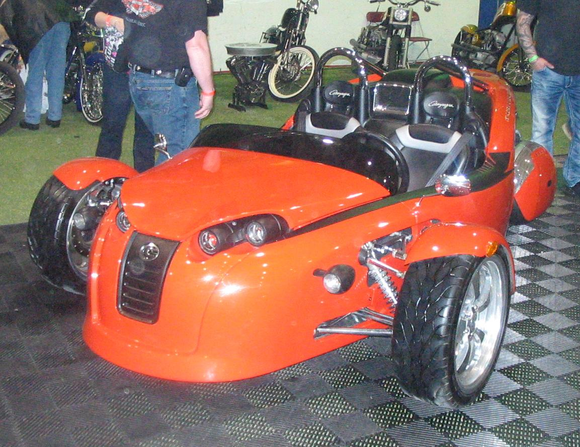 2013 Campagna V13 R photographed in Laval, Quebec, Canada at the Laval Bike & Tattoo Show 2012.